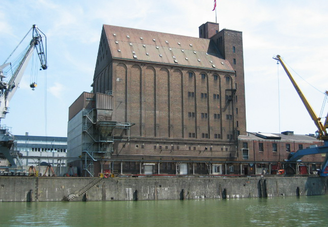 Bernoullisilo - Rhine Port of Basel